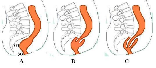 Diagram showing internal rectal intussusception. A. Normal anatomy: (r) rectum, (a) anal canal B. Recto-rectal intussusception C. Recto-anal intussusception